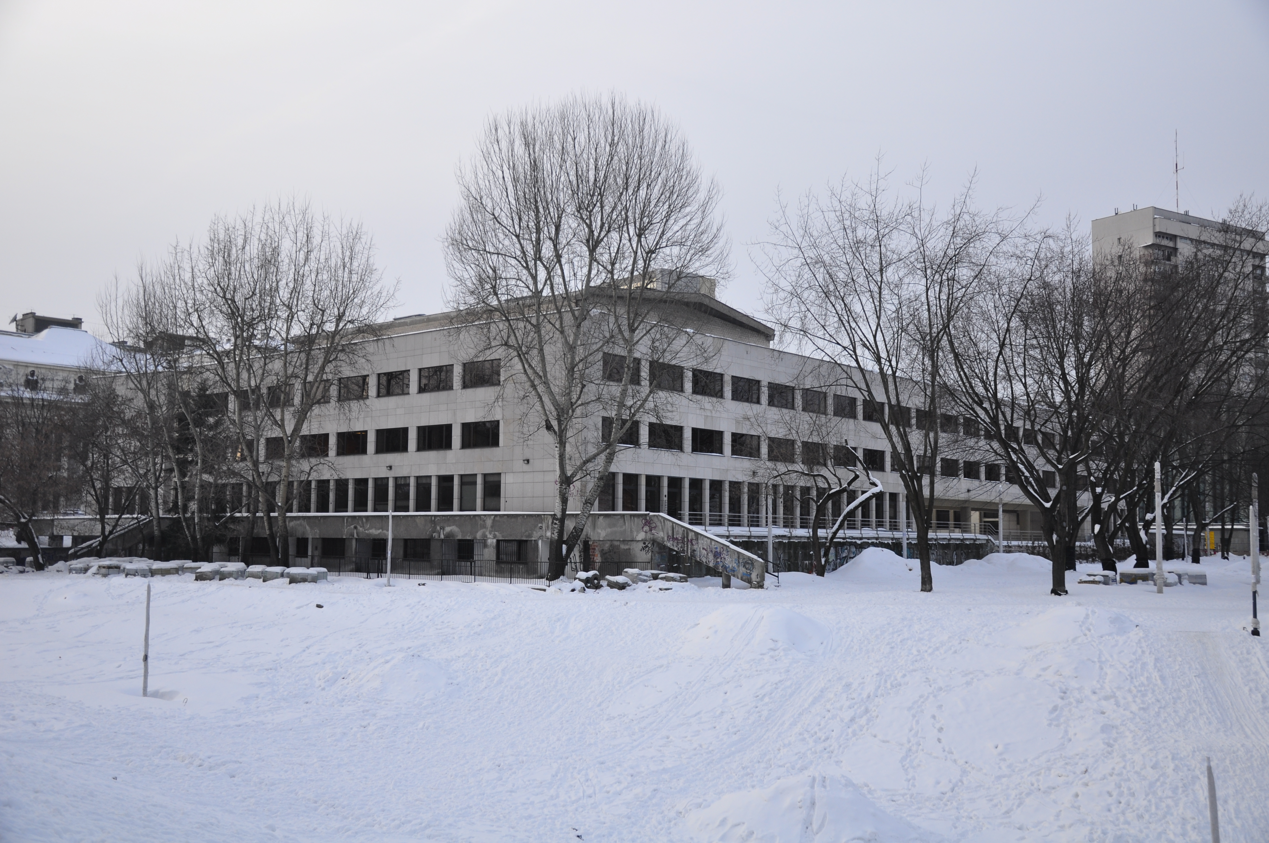 Warsaw, music school , ul Okólnik, Akademia Muzyczna im. Frederyka Chopina, foto from the south (Pałac Foksal)